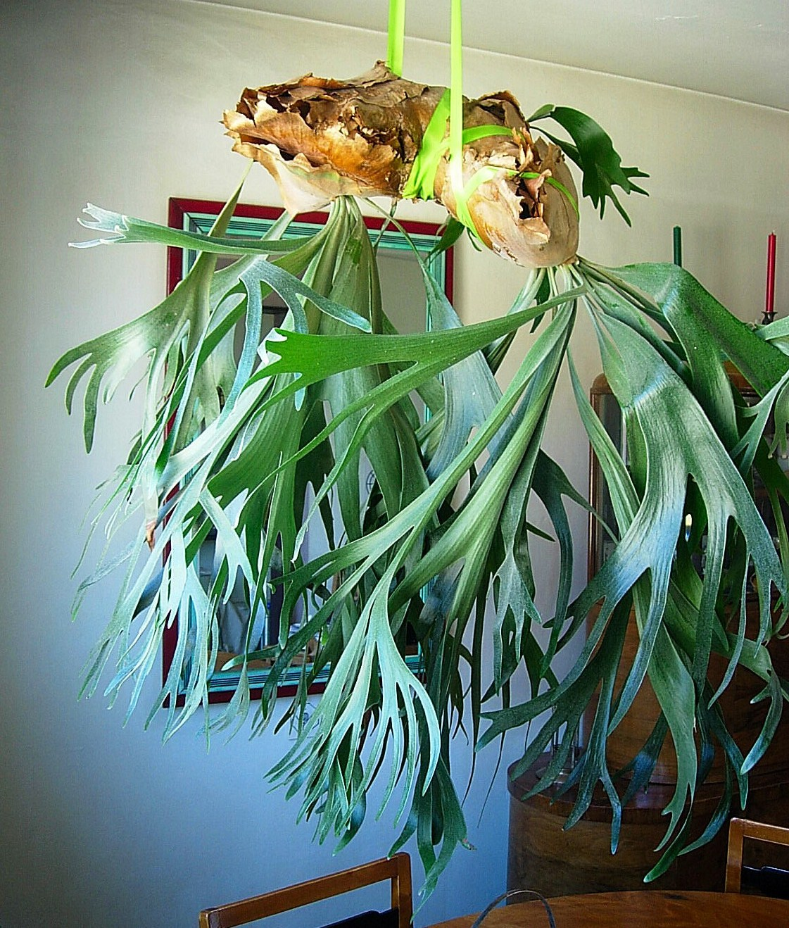 Foto of an indoor growing plant (about 10 years old), natural light from nothern window